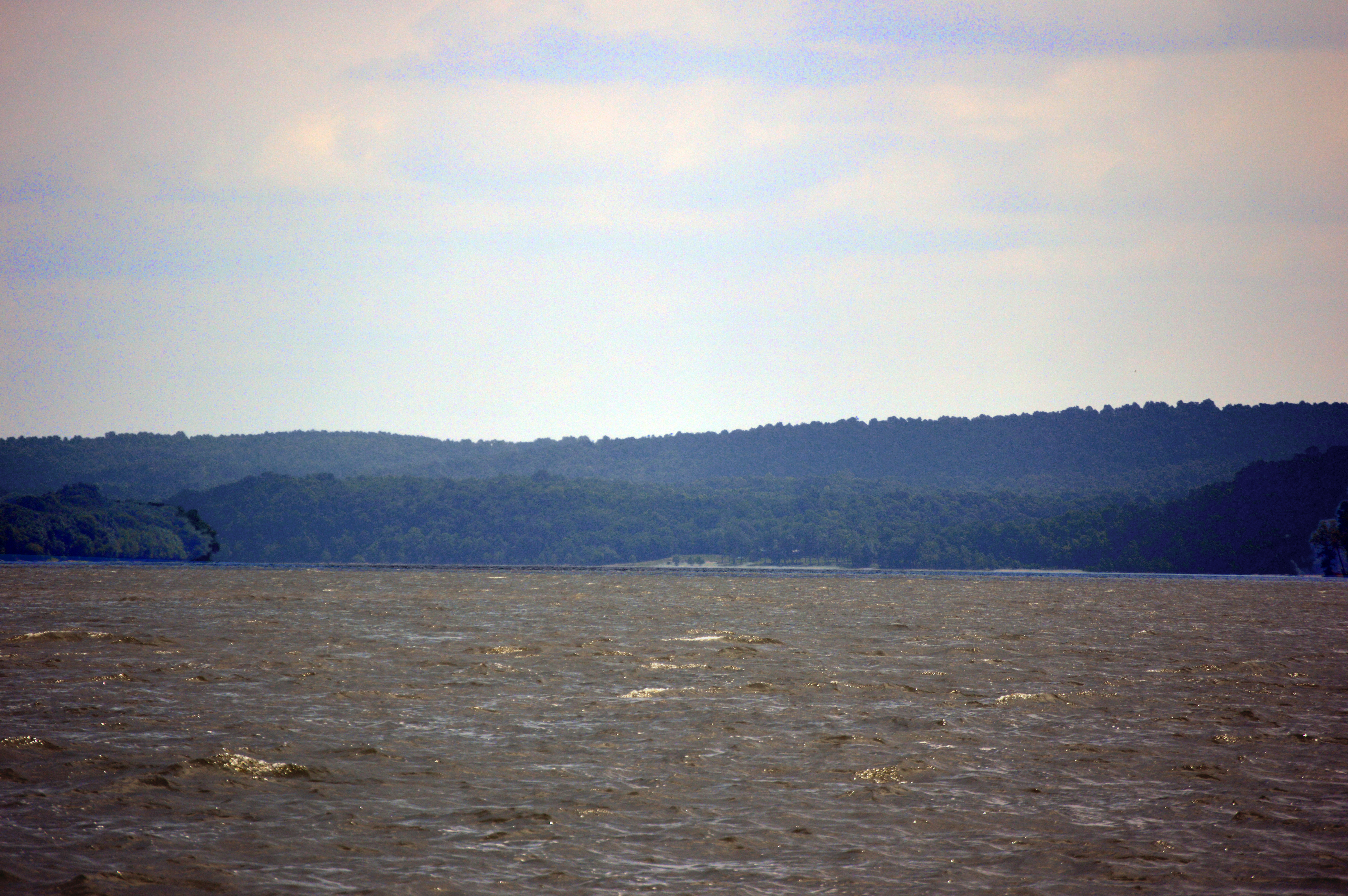 Distant view from the west of the landing at Weston in Crittenden County, Kentucky, United States. The high hill in the background is Obie Mound, elevation 435 feet above the river. Much closer to the river (see annotation), the Weston Bluff was the site of local conflict during the Civil War; it is listed on the National Register of Historic Places. Photo looks eastward from the Cave-in-Rock Ferry.